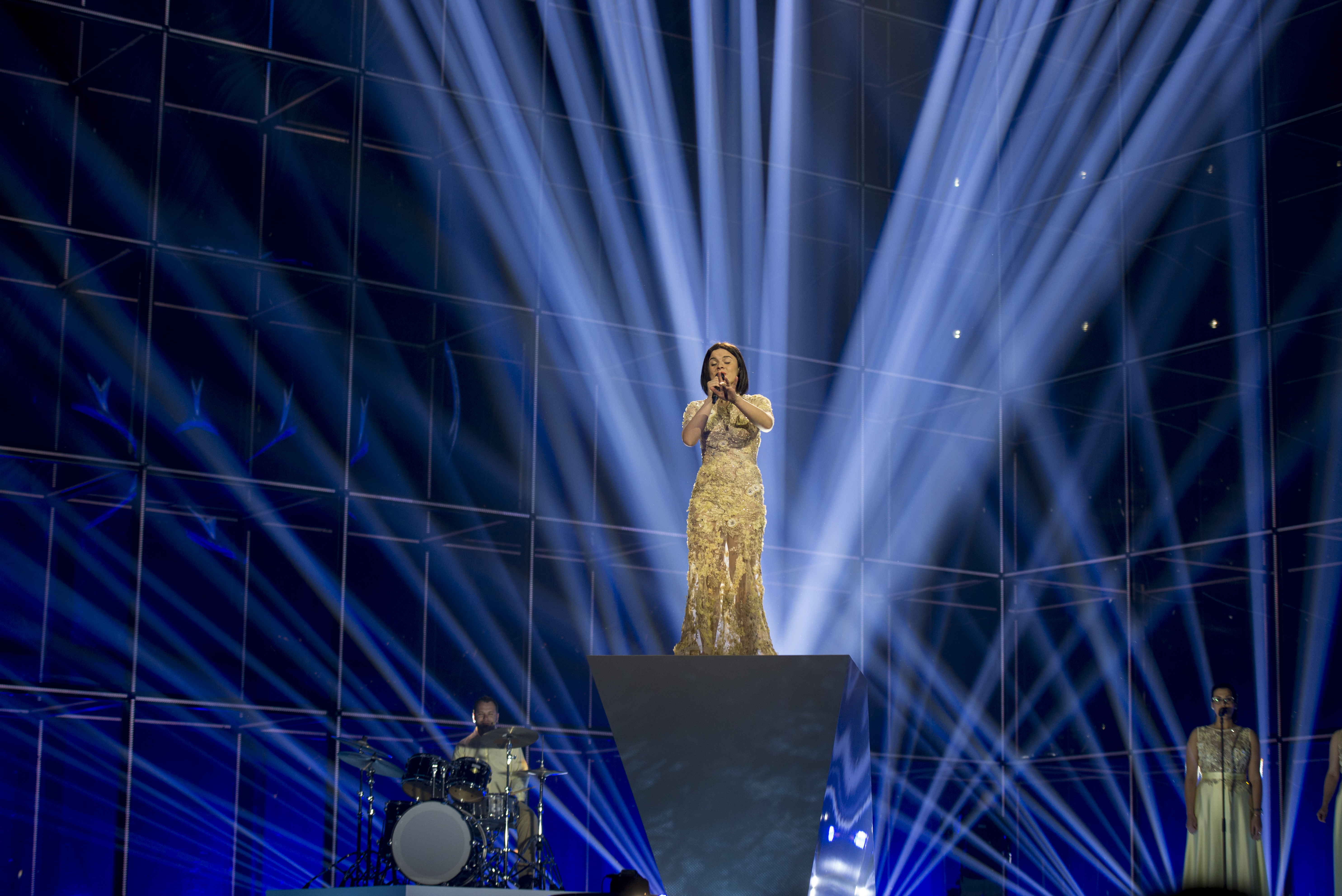 Herciana Matmuja representing Albania with the song "One Night's Anger" during the first dress rehearsal of the first semi final of the Eurovision Song Contest 2014 Copenhagen. (Help translate this text)